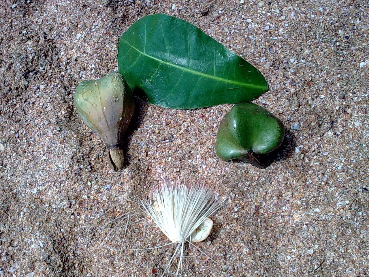 Barringtonia asiatica: fruit, leaf & flower